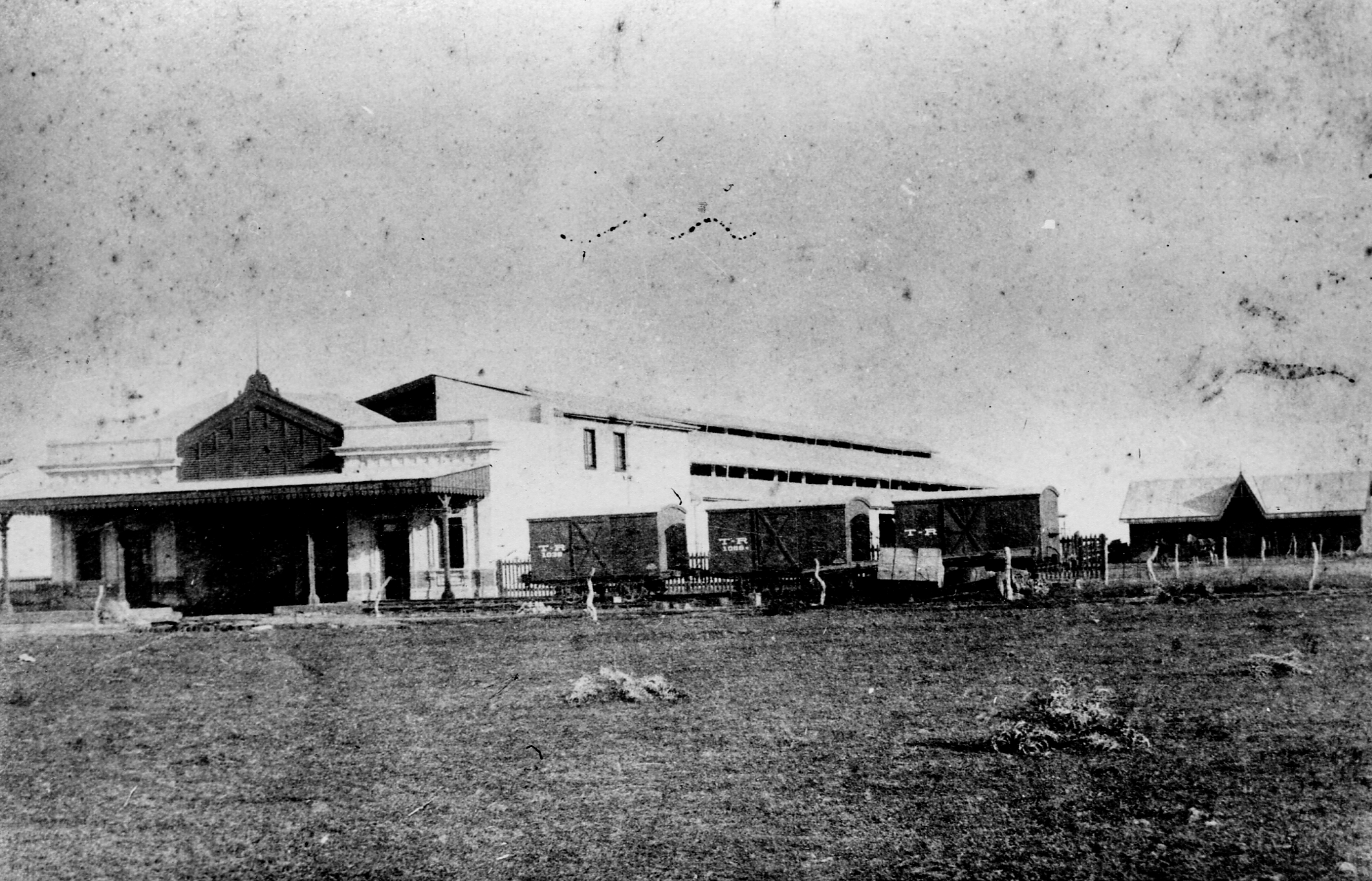 Chacarita station of Federico Lacroze's Tramway Rural in Buenos Aires. Federico Lacroze terminus is placed here nowadays.